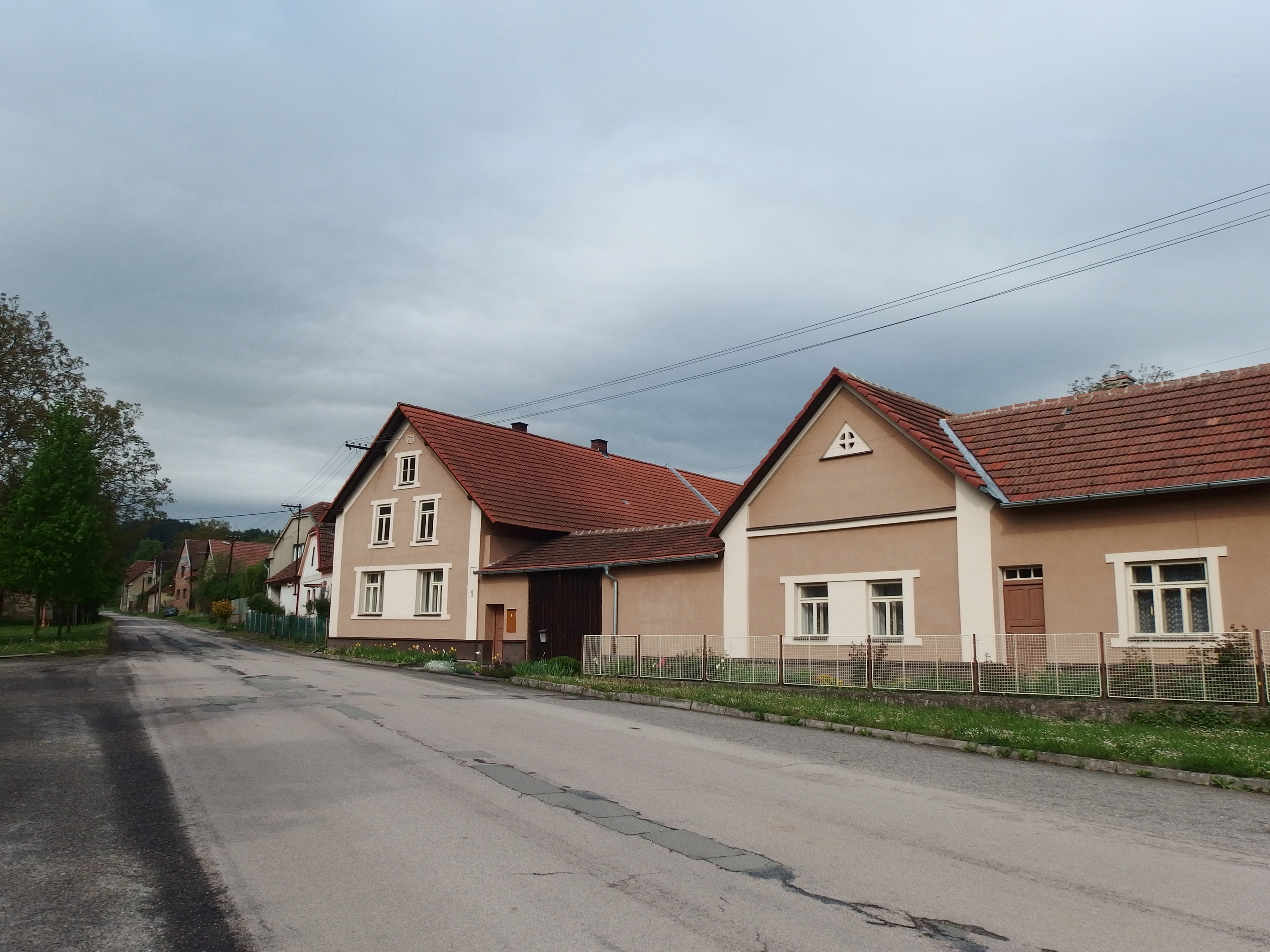 Vysoké Mýto, Ústí nad Orlicí District, Czech Republic, part Lhůta.